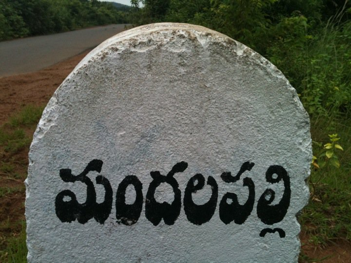 Mandalapalli